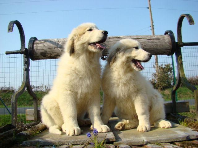 Pyrenean Mountain puppies